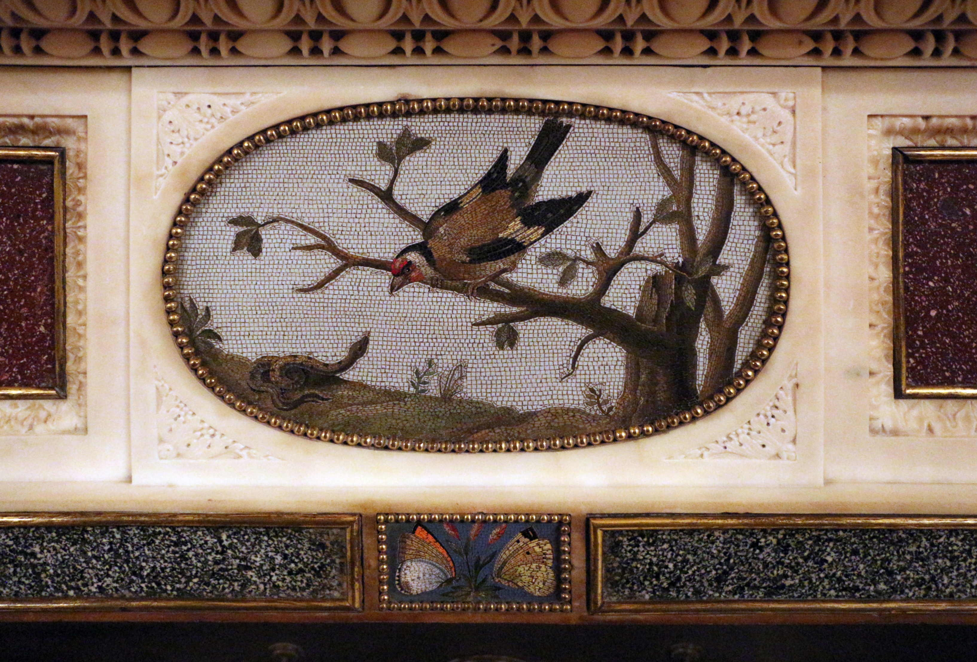 Palazzo Corsi-Tornabuoni - Interior